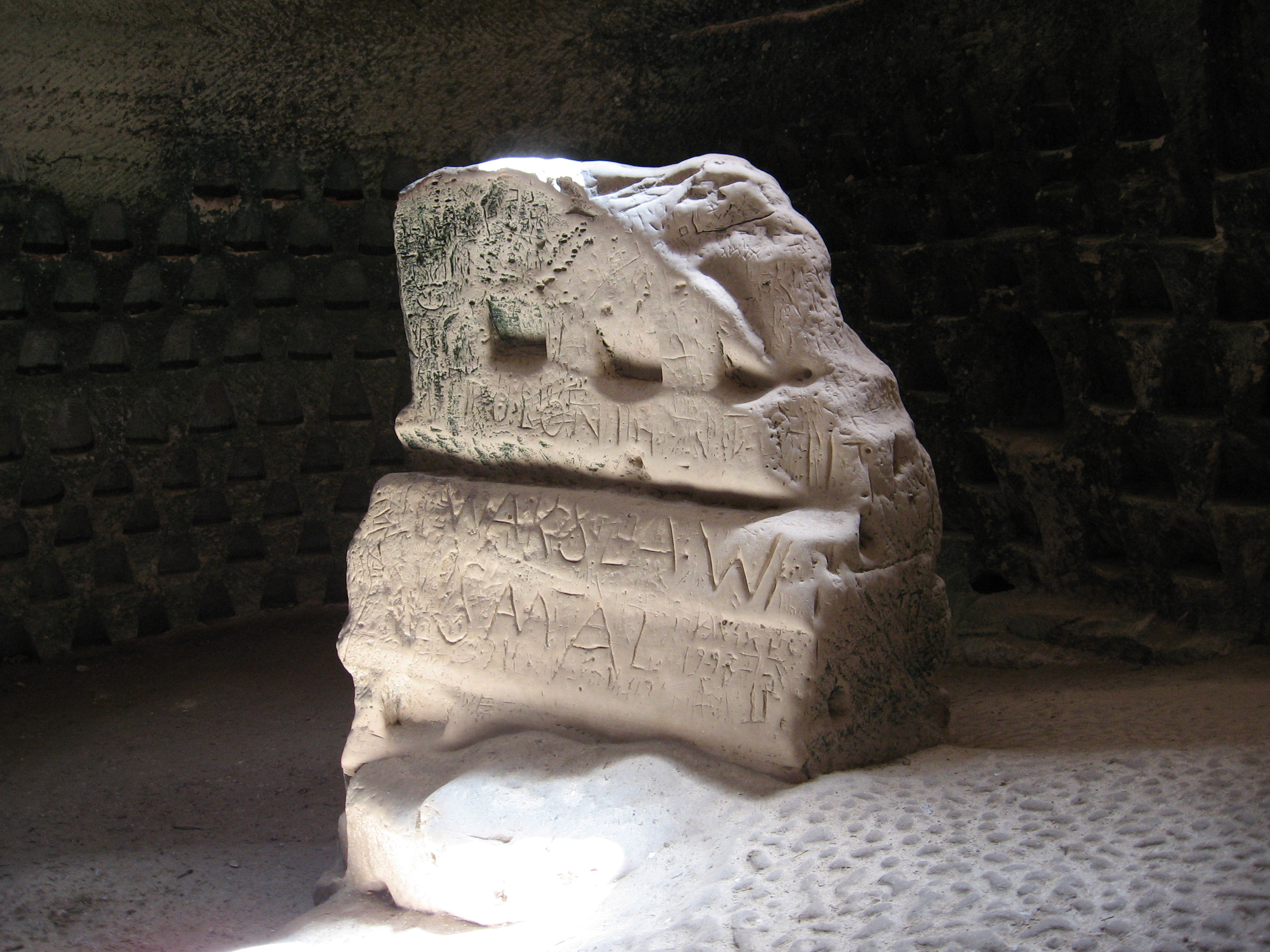 Polish Cave at Beit Guvrin National Park